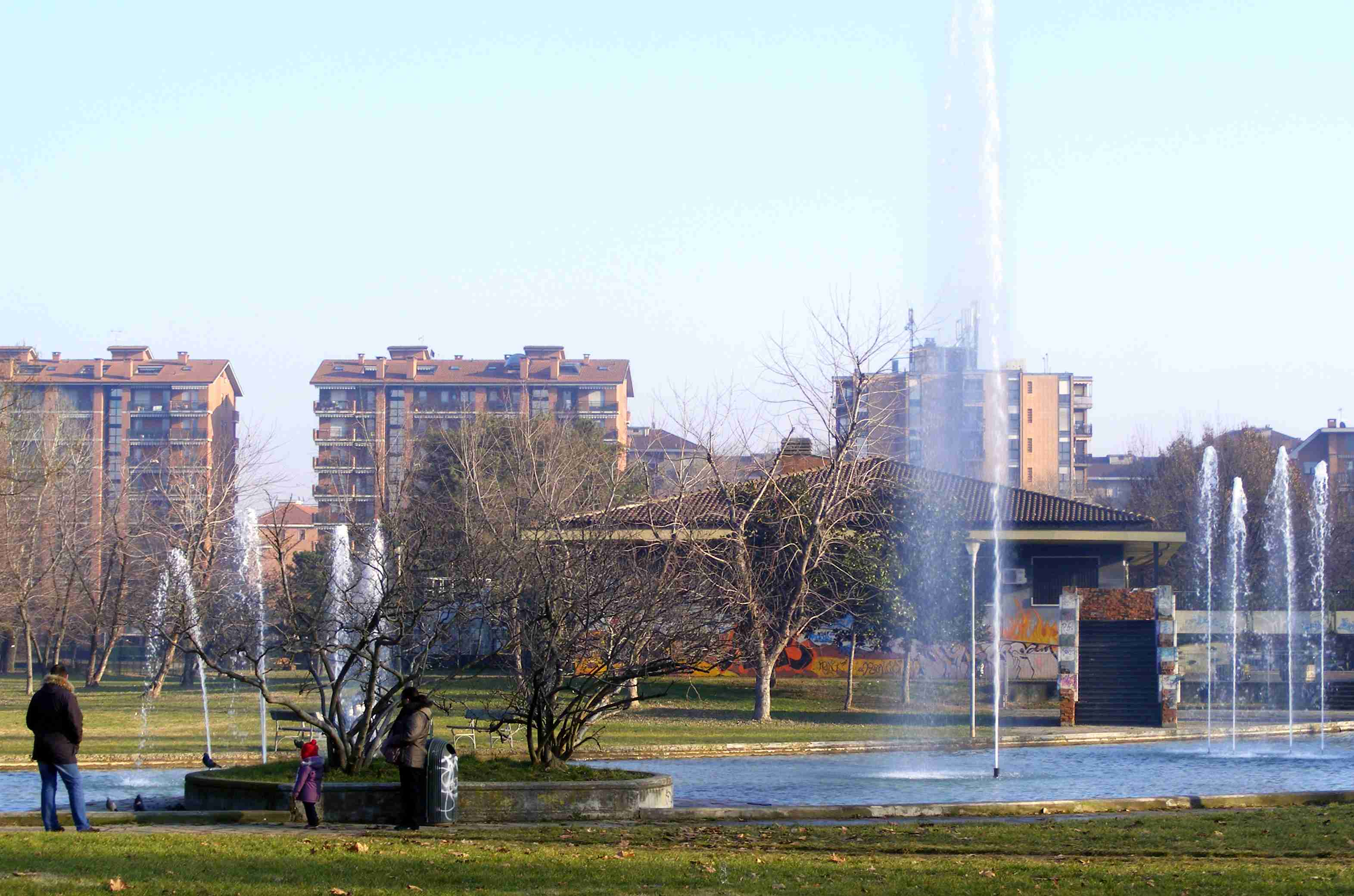 Turin, Italy: Di Vittorio park